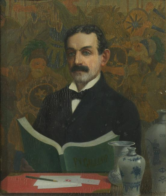 In 1882, at age 22, William Gilman Nichols became a partner in the high-end furniture and decorating company Herter Brothers; business analysts R.G. Dun & Co. described him as "a young man of decided artistic tastes, of good character and habits & well fitted for his present occupation."[1] Nichols was president of Herter Brothers from 1891 until its dissolution in 1906.[2] His marriage in 1893 to Herman O. Armour's daughter Mary was given the front-page headline "Marriage of Millionaires" in one newspaper.[3] From 1900 the couple resided at a sprawling waterfront estate called Petronia[4] in Rye, New York. His brother-in-law Harry Watrous painted this portrait of Nichols, to whom he also made a gift of his painting The Line of Love.[5] After Nichols's death at 49 in 1909, his widow and children continued to reside at Petronia.